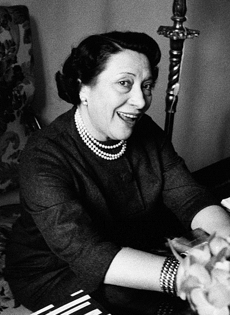 Italian soprano Mafalda Favero posing smiling sitting at the desk. Milan, April 1953